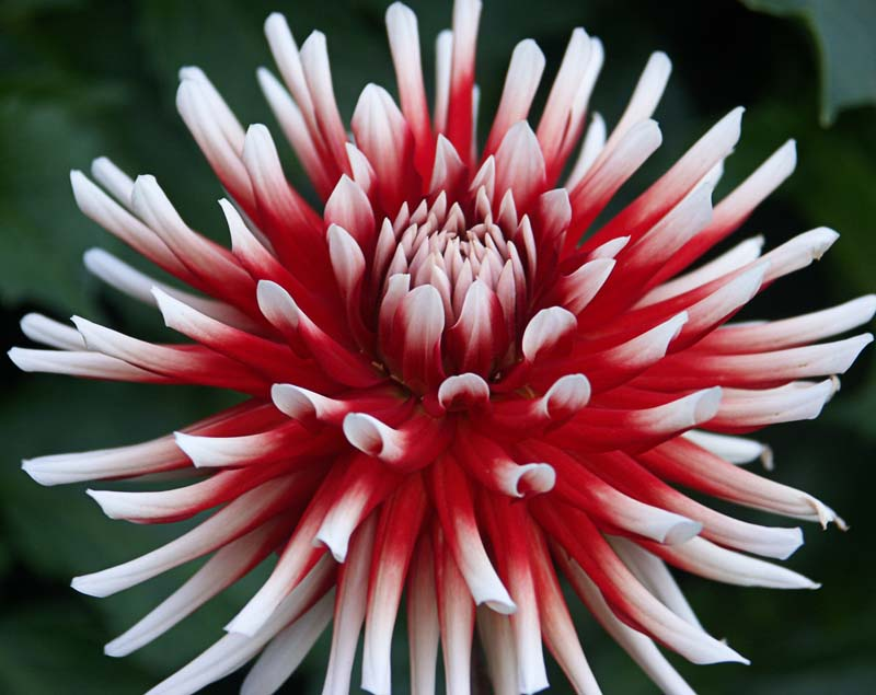 Dahlia cultivar 'Jaldec Joker' (small-flowered cactus)